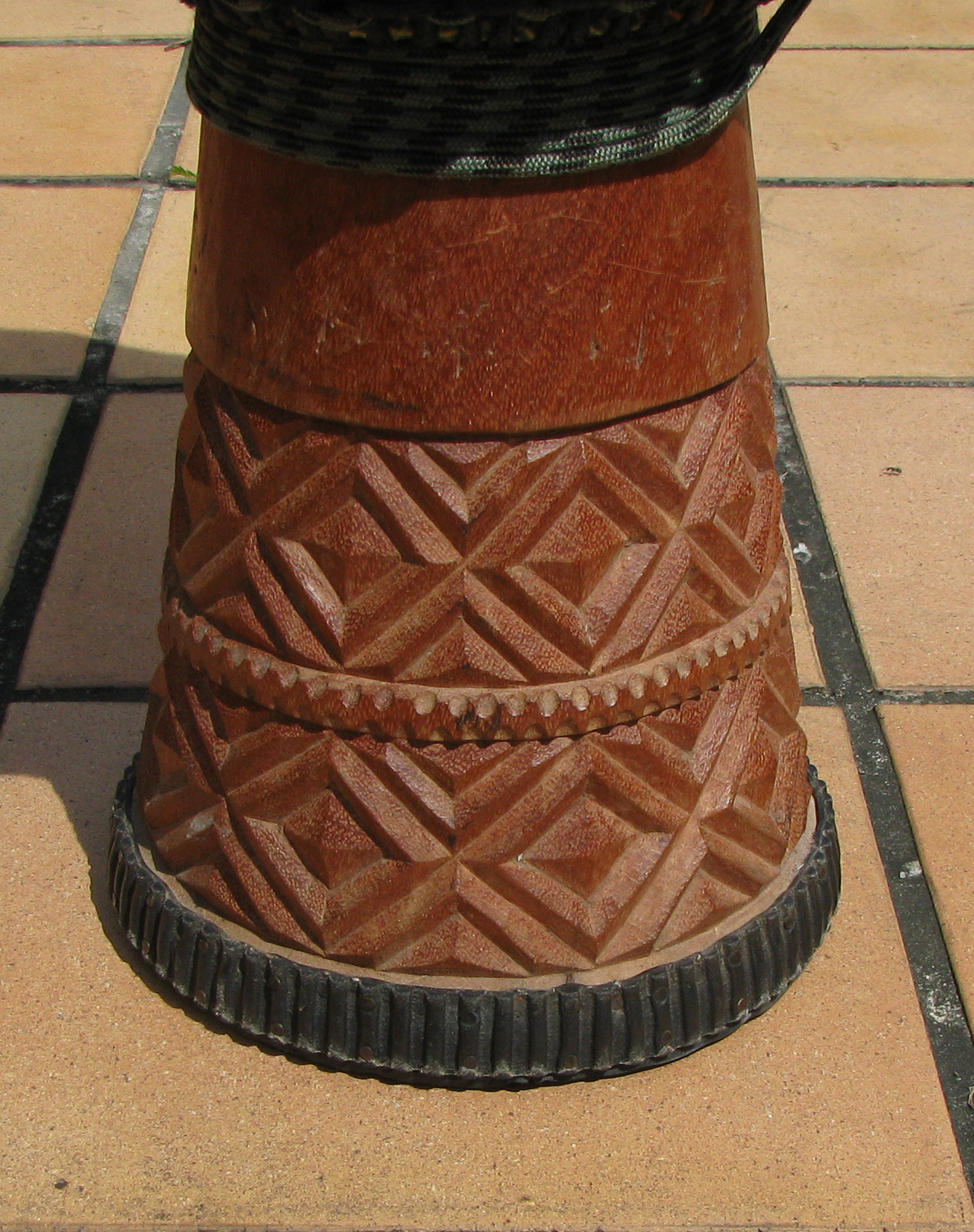 Decorating djembes with timing belts was popular in the late 90s and early 2000s in Guinea. This drum is a Guinea djembe (lenke wood) purchased in Conakry in 2001.